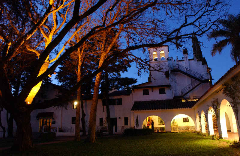 Estancia San Pedro de Timoto, Uruguay